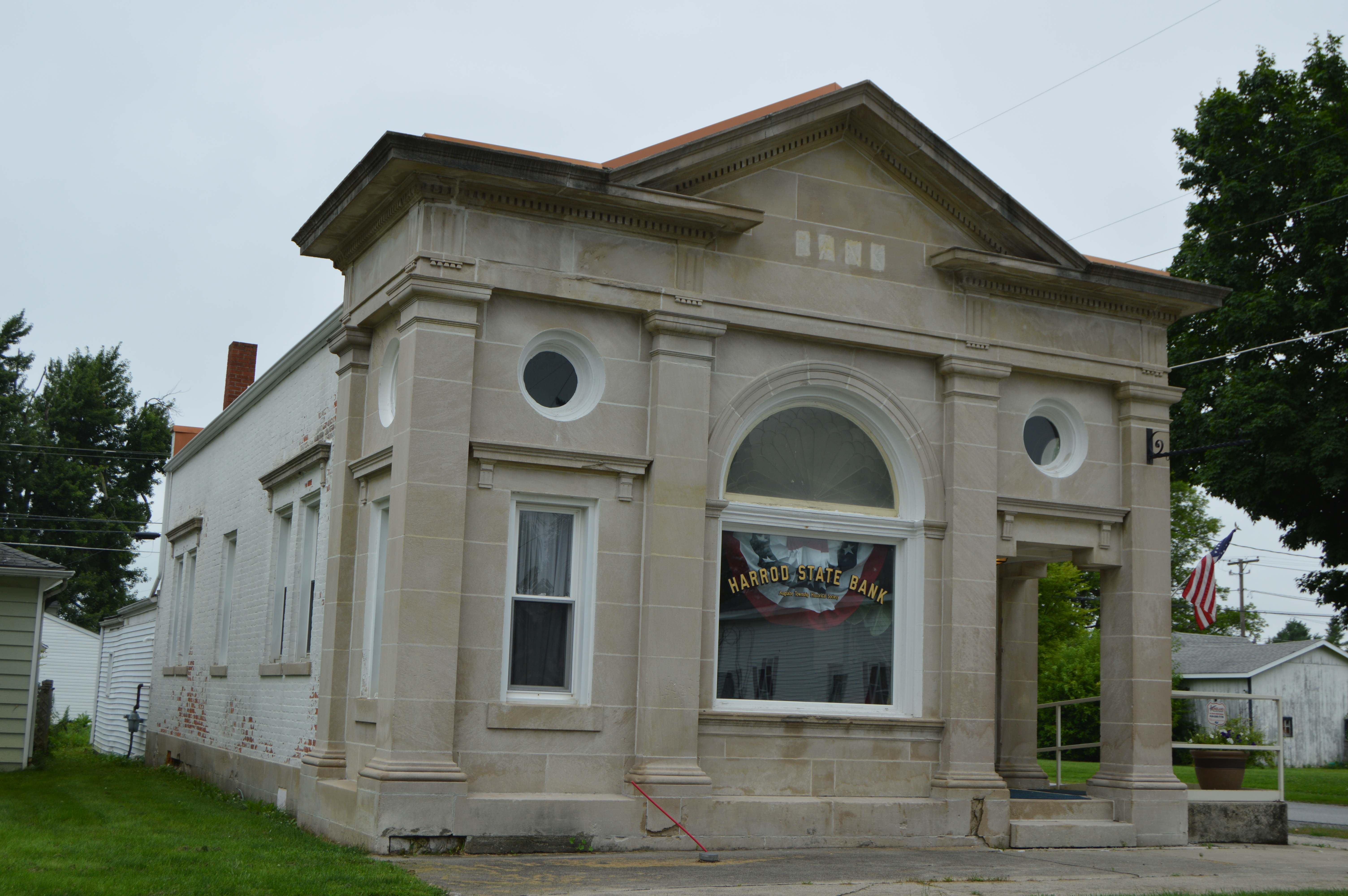 Front and southern side of the former Harrod State Bank (now the local historical society), located at 100 S. Main Street in Harrod, Ohio, United States. It was built in 1910.